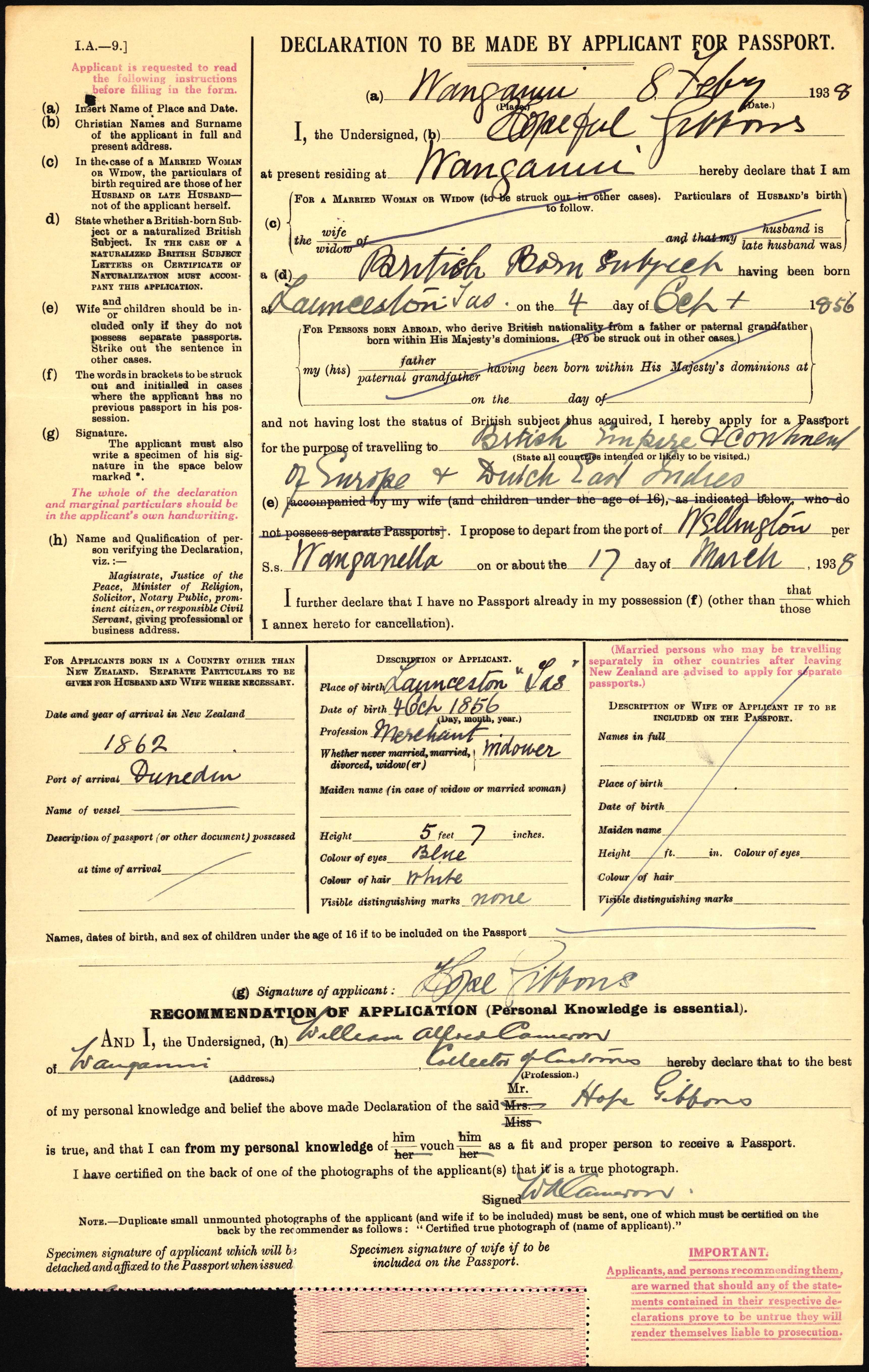 Archives New Zealand Reference: ACGO 8333 IA1 1350 / 15/11/22022